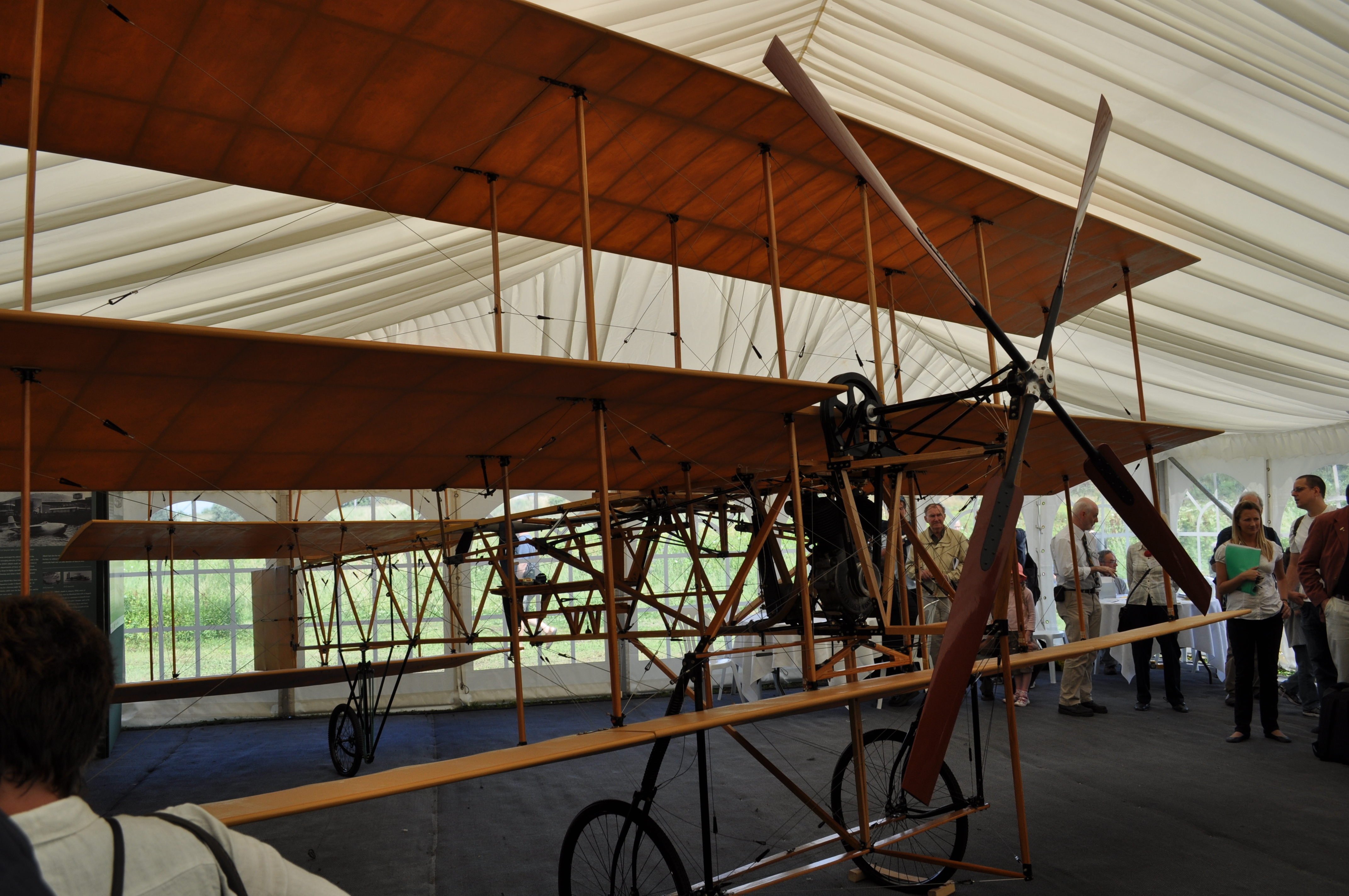 A replica Roe I Triplane pictured at an event on Walthamstow Marshes to commemorate the 100th anniversary of British powered flight. I took this photograph, pls attribute K B Thompson [Note: the previous version with this filename appears to have been moved to commons as PDOLD; and then deleted for 'insufficient licence information'. A historical photograph can be uploaded, but it must have a full fair use justification for each use].